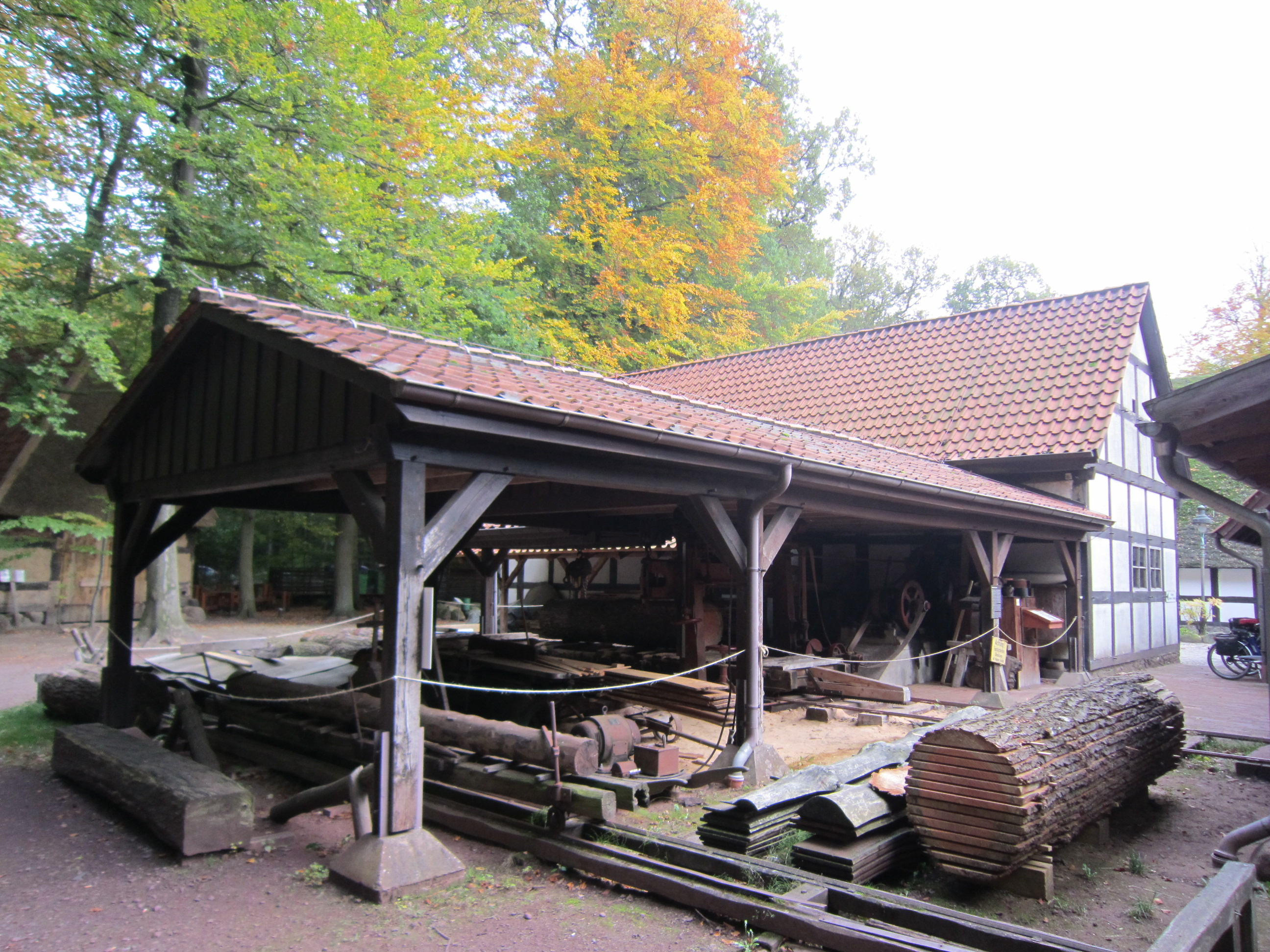 Saw mill at Syke's "Kreismuseum"